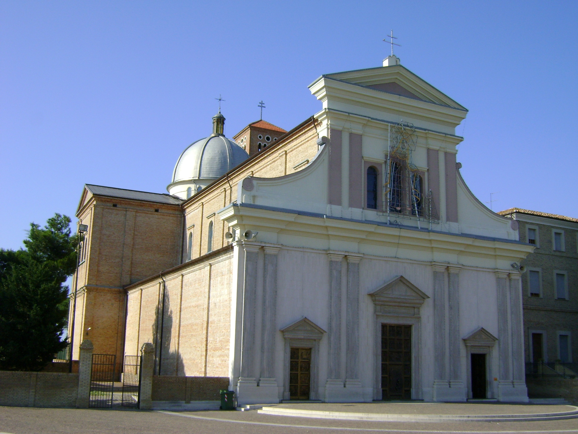 The sanctuary of Our Lady of Miracles, Casalbordino, province of Chieti, Abruzzo